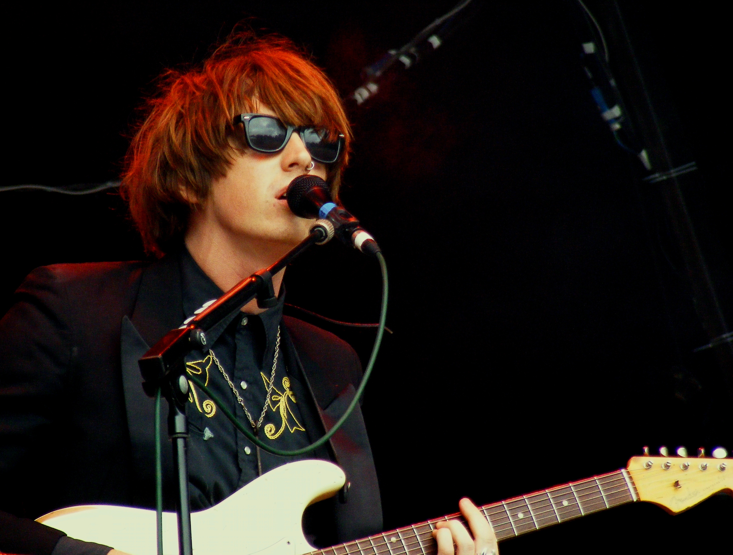 Blaine Harrison of the Mystery Jets performing at Bingley Music LiveBingley Music Live on Saturday the 3rd of September 2011.